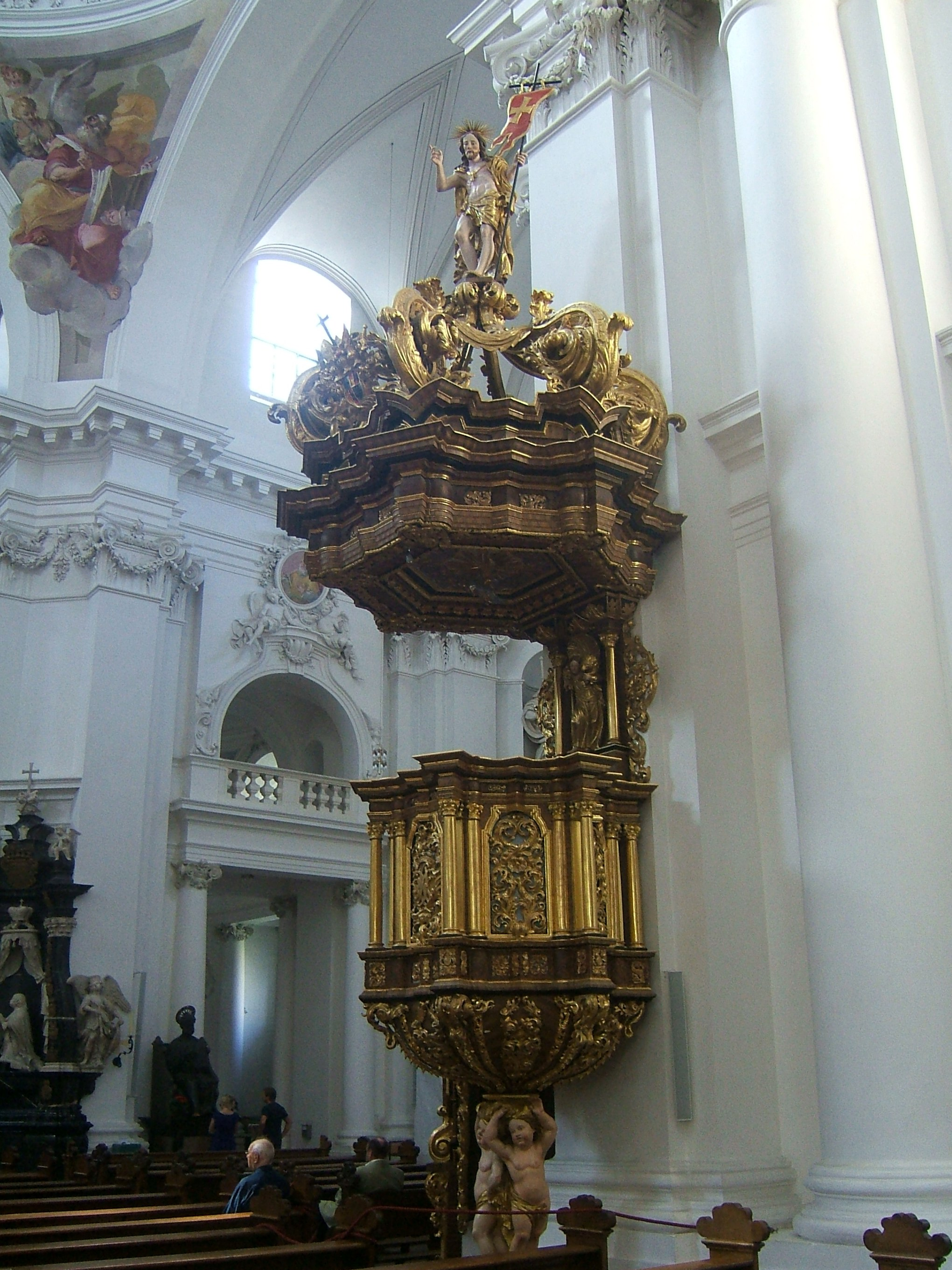 Pulpit of Fulda Catehdral.